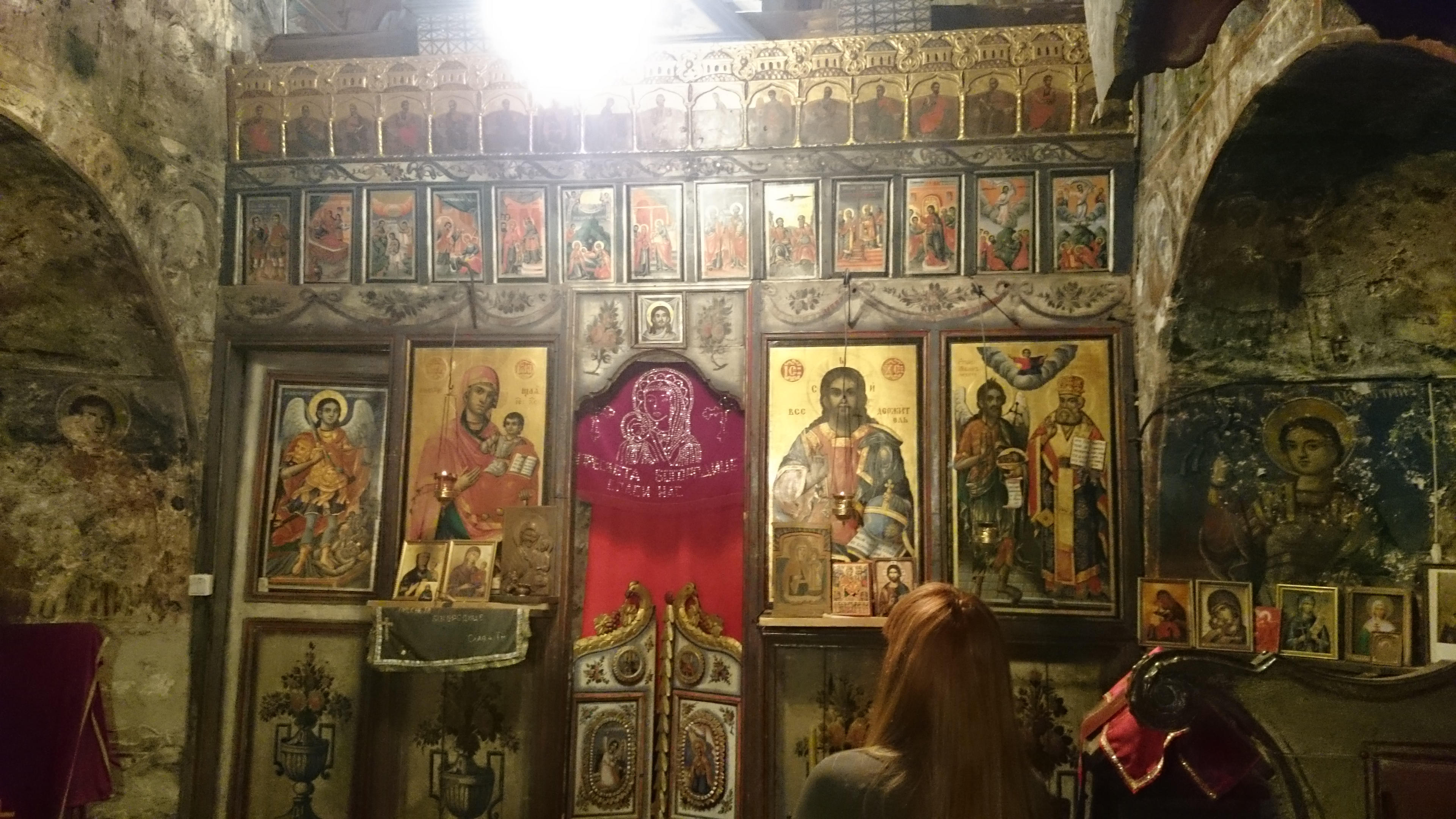 Dormition of the Theotokos Church, part of Lešok Monastery, Macedonia Оваа фотографија е на објект прогласен за културно наследство на Македонија според евиденцијата во Регистарот на културно наследство на Управата за заштита на културното наследство на Македонија Ова е фотографија на споменик на културата во Македонија со типски код: A01This is a a photo of a cultural monument in North Macedonia with type id: A01